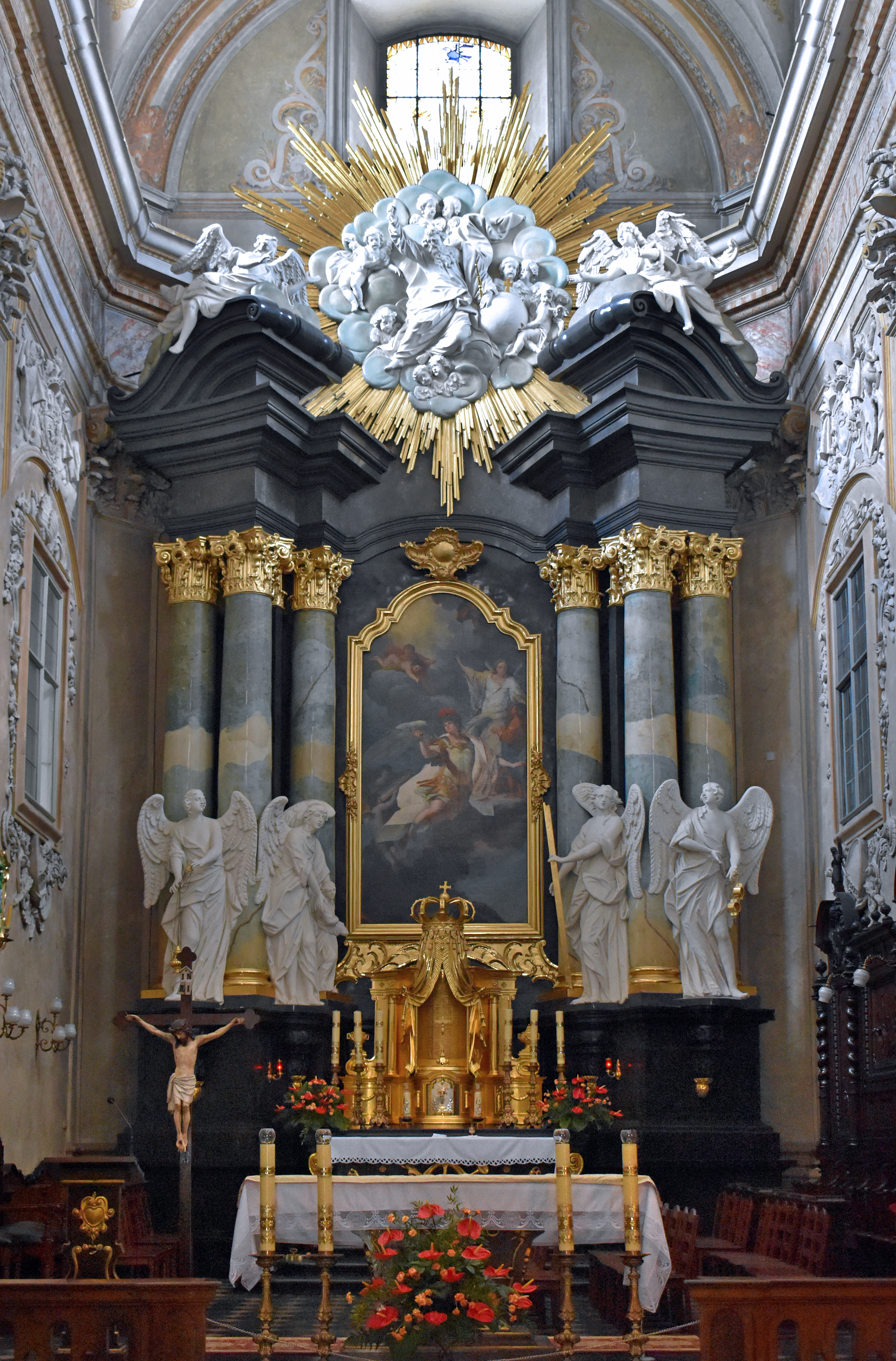 Church of St Michael the Archangel and St Stanislaus Bishop and Martyr, main altar, 15 Skałeczna street, Kazimierz, Krakow, Poland